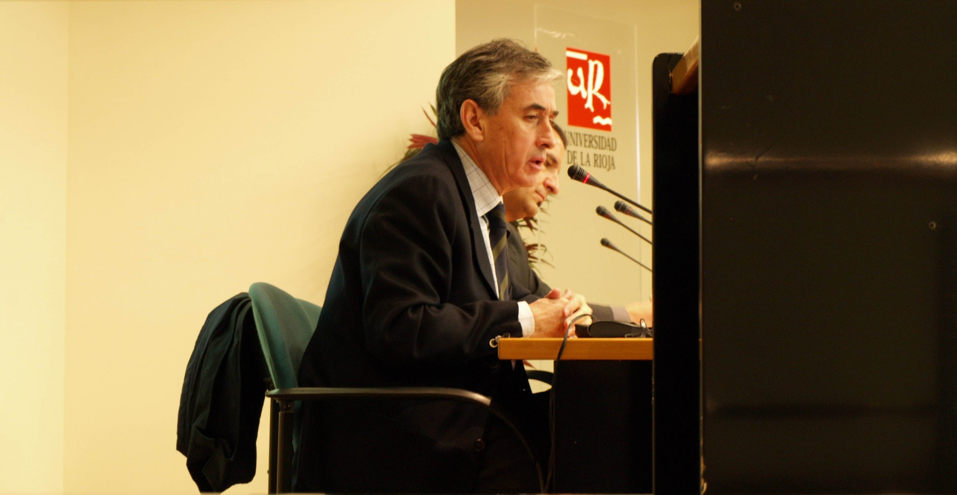 Ramón Jáuregui, in the University of La Rioja (Spain).